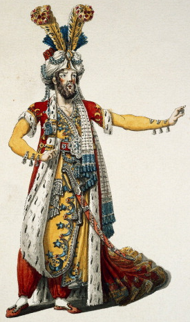 Joseph Haydn - Armida - Turin 1804 - Giacomo Pregliasco - Costume Idreno - Vincenzo Gamberai